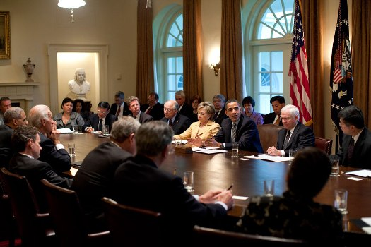 President Barack Obama holds his first cabinet meeting. To his left is Secretary of Defense Robert Gates and Secretary of Commerce Gary Locke, while to his right are Secretary of State Hillary Rodham Clinton, Secretary of the Interior Ken Salazar, Secretary of Housing and Urban Development Shaun Donovan, Secretary of Veterans Affairs Eric Shinseki and Administrator of the Environmental Protection Agency Lisa P. Jackson. Vice President Joe Biden is across from Obama and to his right is Secretary of the Treasury Timothy Geithner, Secretary of Agriculture Tom Vilsack, Secretary of Energy Steven Chu and Secretary of the Department of Homeland Security Janet Napolitano, while to his left is Attorney General Eric Holder and National Security Advisor James L. Jones.